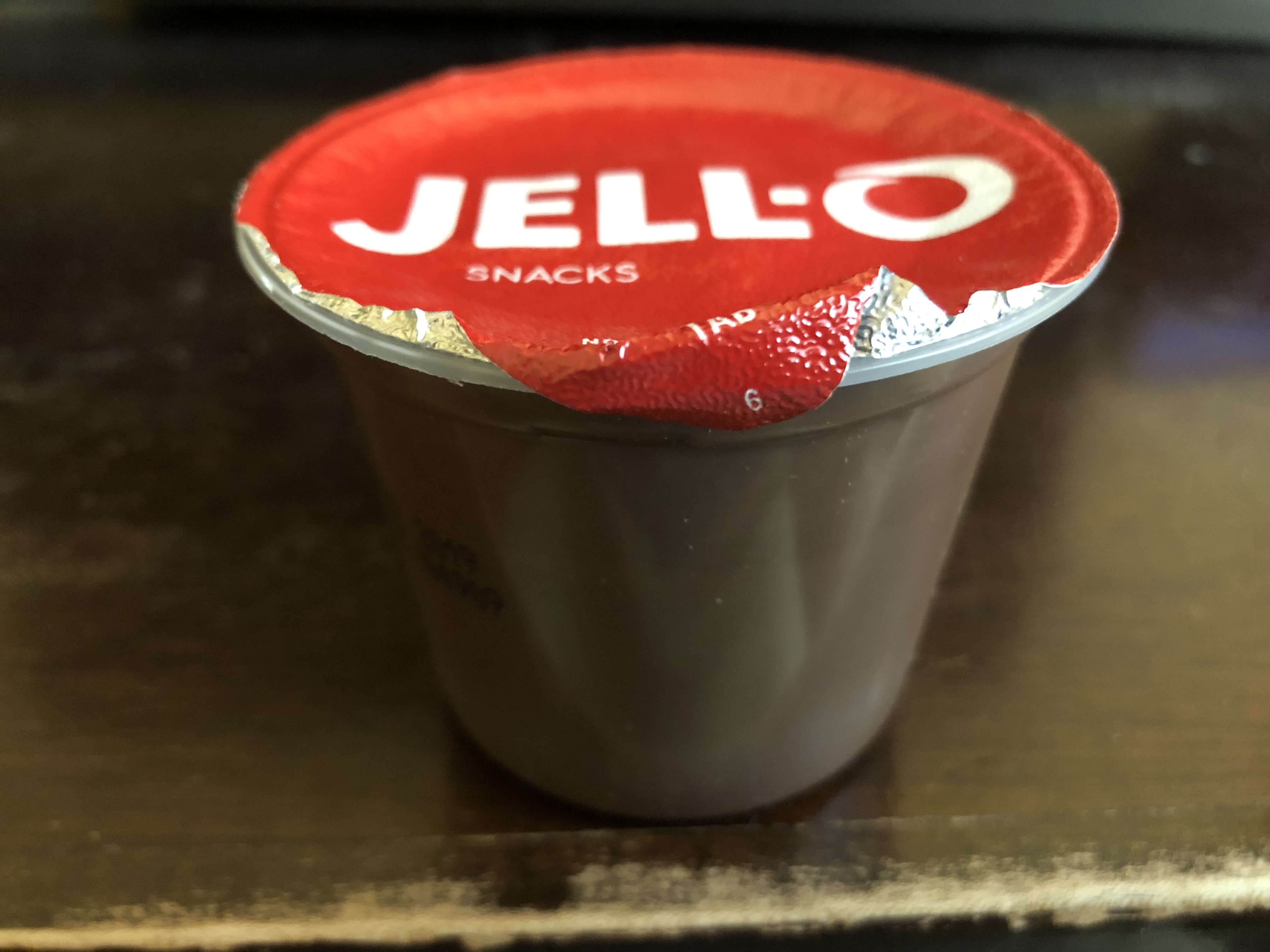 An unopened cup of Jell-O chocolate pudding in the Franklin Farm section of Oak Hill, Fairfax County, Virginia